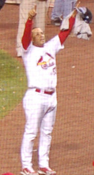 John Rodriguez of the St. Louis Cardinals faces and raises his hands to the crowd after winning the 2006 World Series.